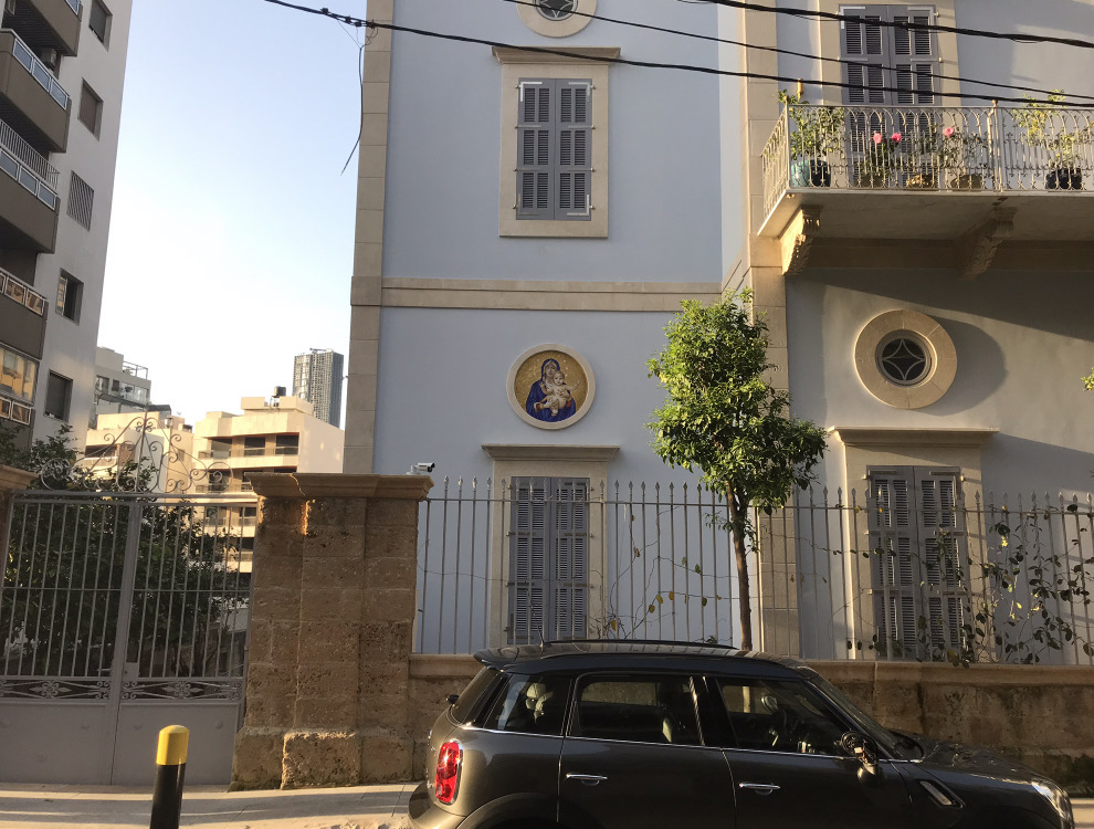 Rue Sursock, Achrafieh